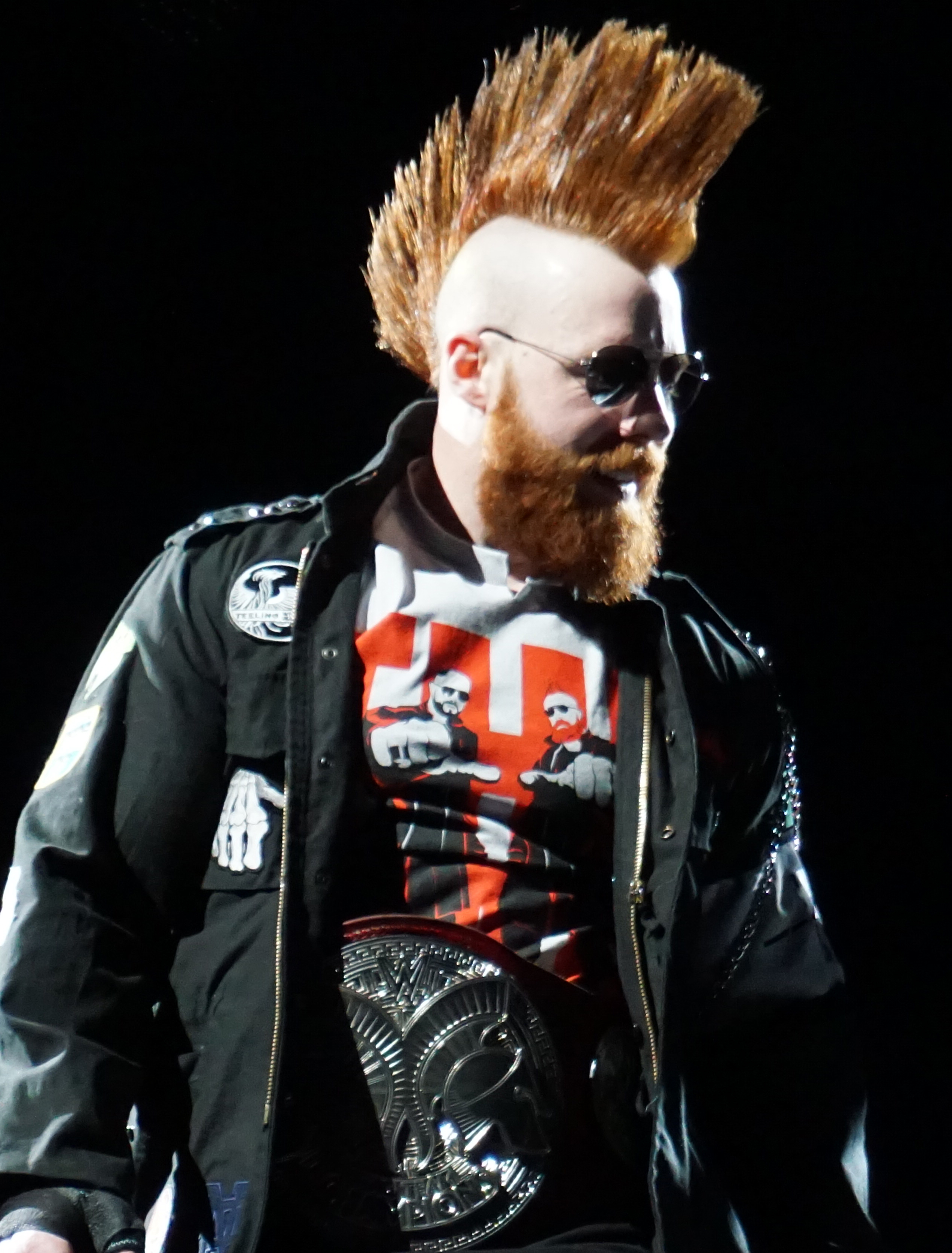 Sheamus at the WWE live show in Buffalo, NY on March 25th, 2018.